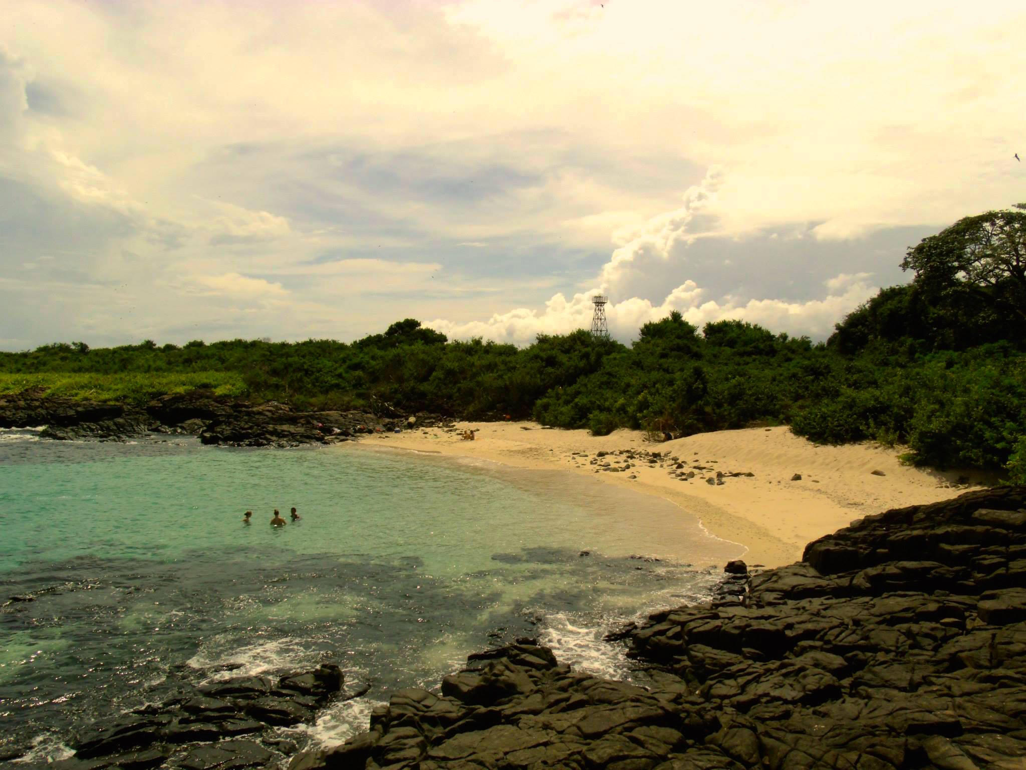 View of the beach in Isla Iguana Wildlife Refuge.